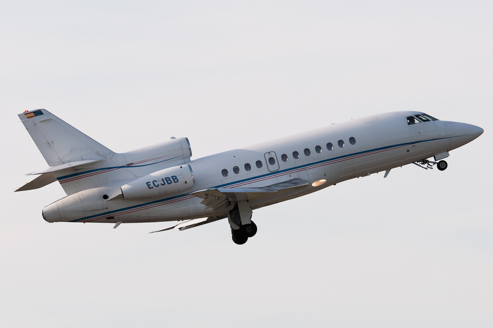 A Falcon 900C taking off at Braunschweig Airport